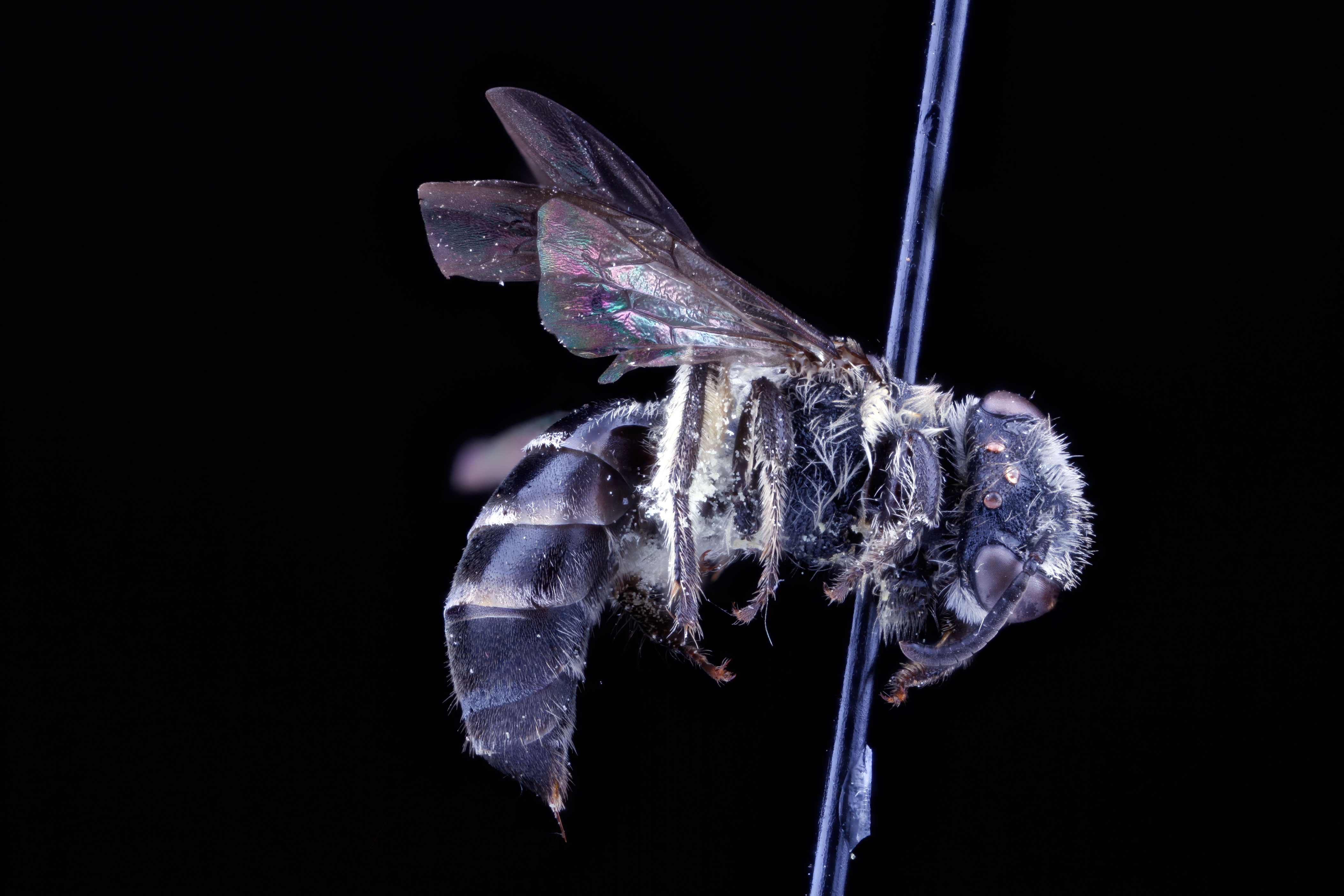 Colletes thysanellae, female, South Carolina